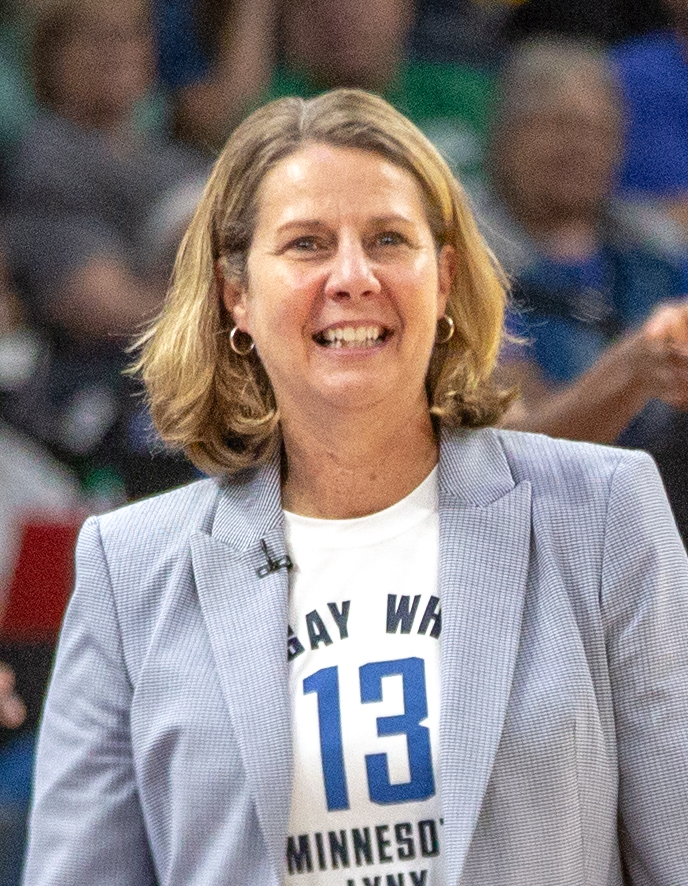 The game was on Sunday August 19, 2018 at Target Center in Minneapolis, MN, the Minnesota Lynx beat the Washington Mystics 88-83